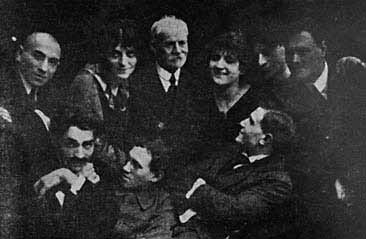 Yacov Dinezon with actors of Vilna Jewish Theater